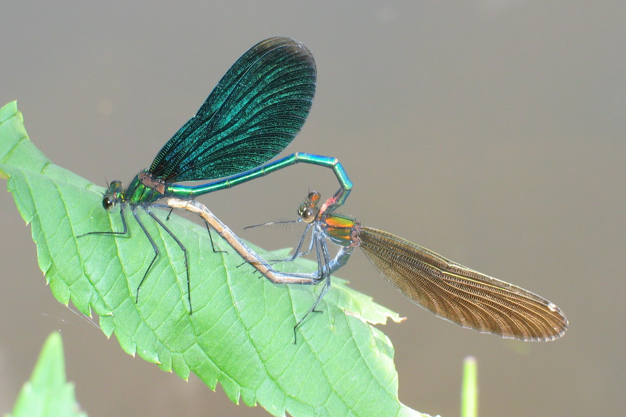 Beautiful Demoiselle